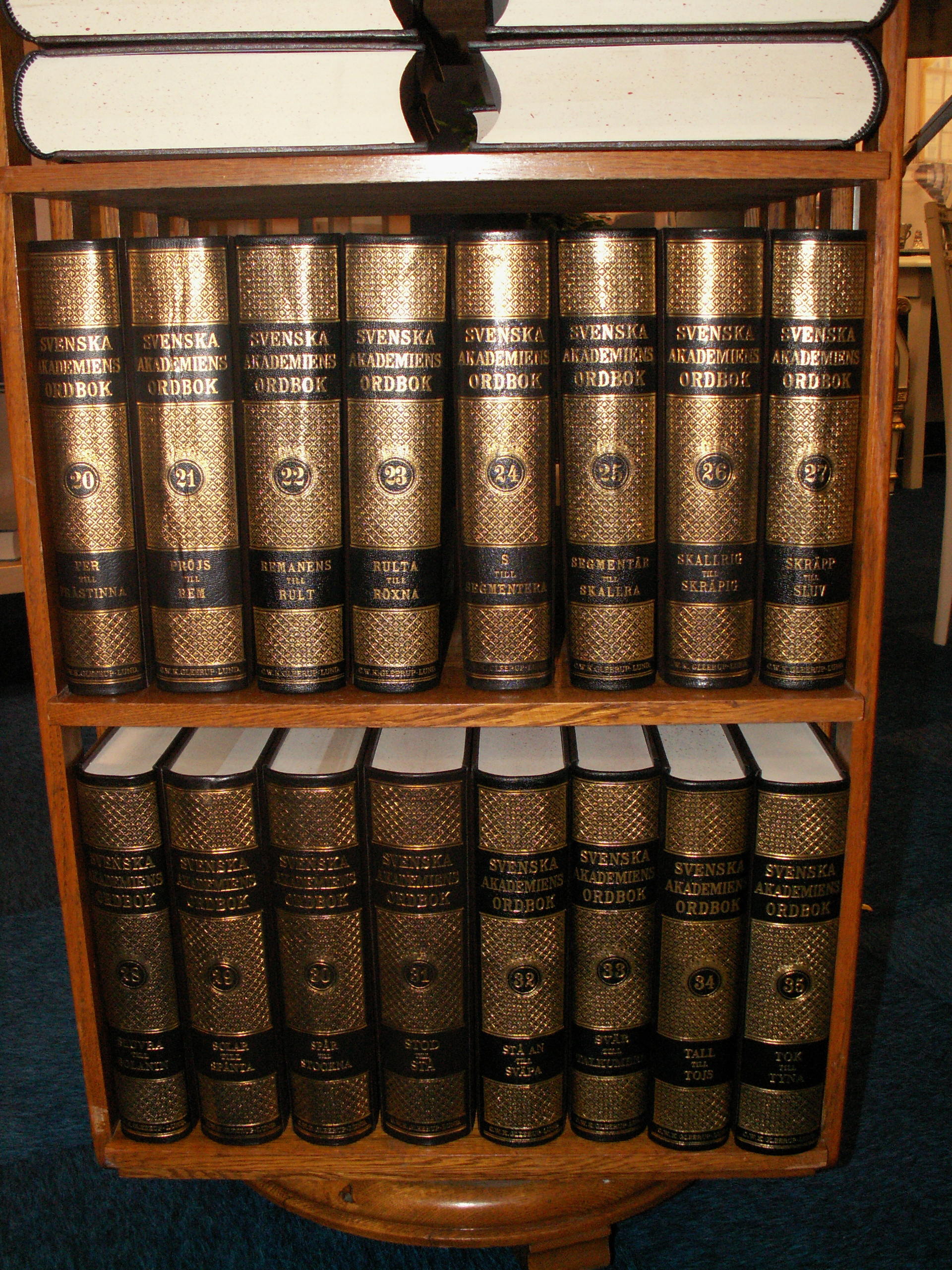 Svenska Akademiens Ordbok, volumes 20 (1954) to 35 (2010). Photographed at the Göteborg Book Fair, Sep. 2011.